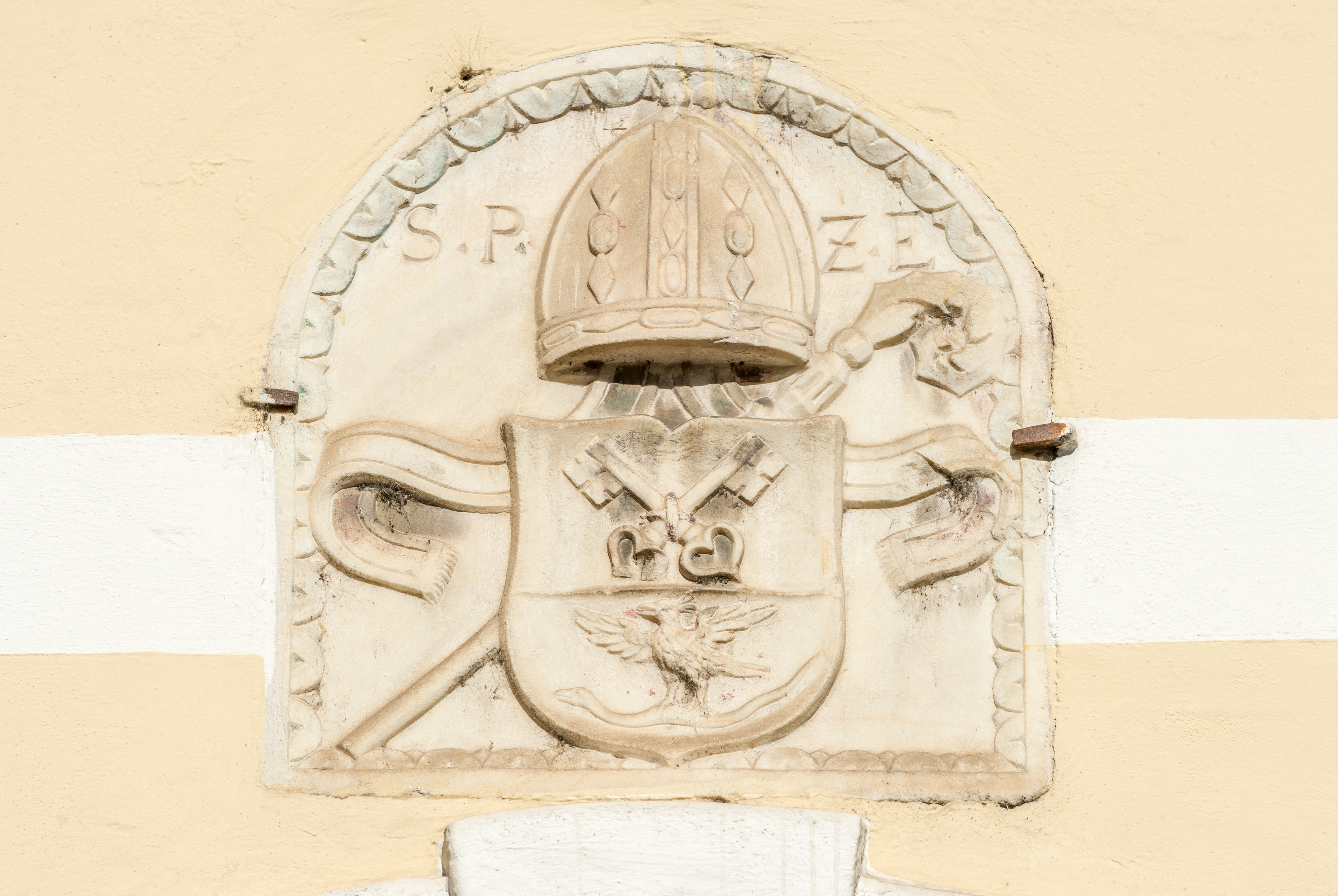 Coat of arms over the southern portal of the provost manor on Bleiburger Strasse #11, market town Eberndorf, district Völkermarkt, Carinthia, Austria, EU